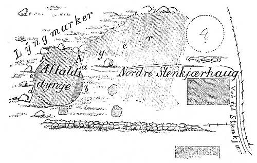 Våttåbakken, the first stone age settlement discovered in Norway. It was discovered in the 1860s. Location: north of Steinkjer in Nord-Trøndelag, Norway.